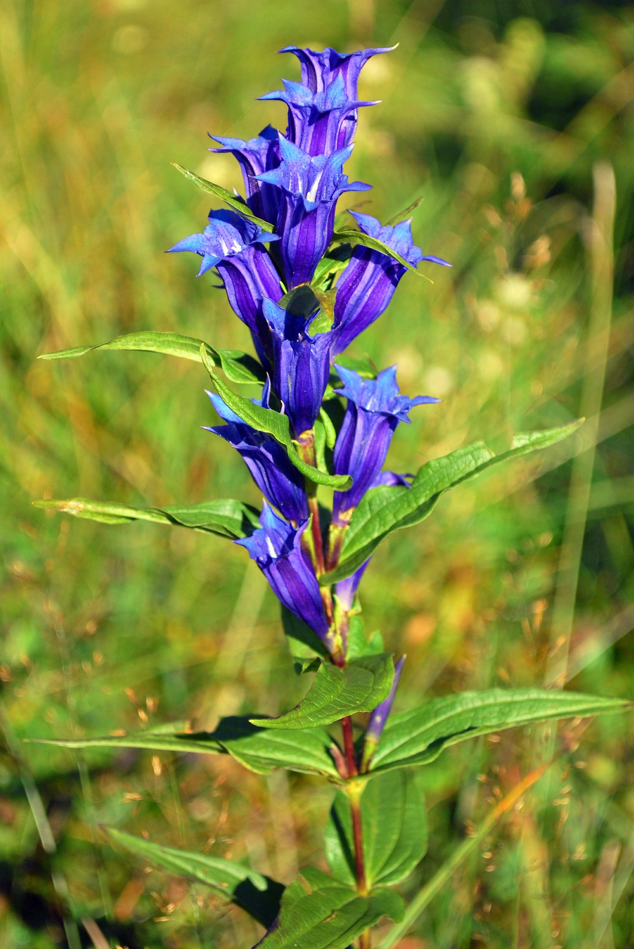 Gentiana asclepiadea